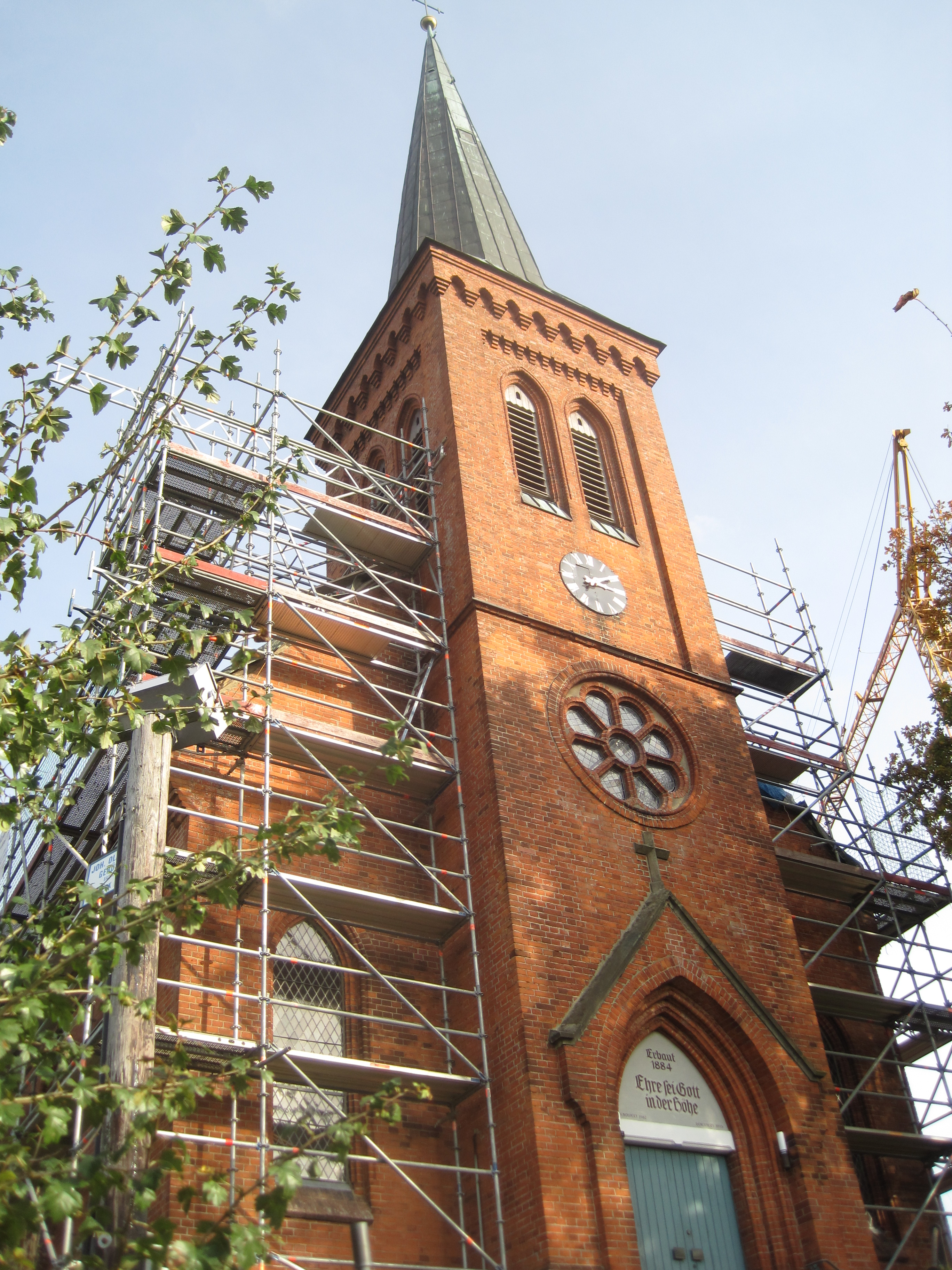 Church in Klein Wesenberg